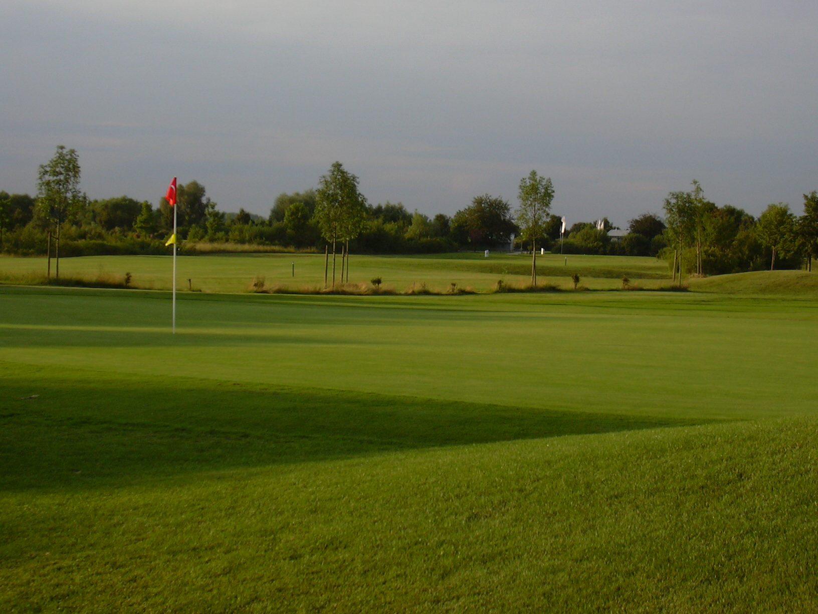 Golf course Gernsheim, Green 1